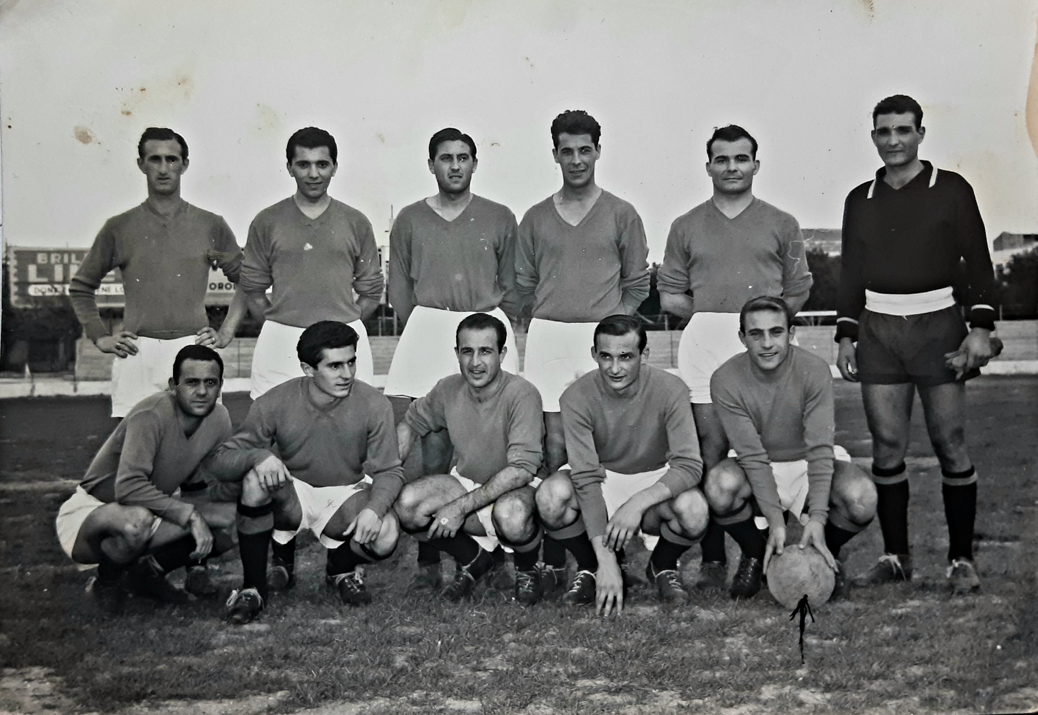 Foto formazione partita di campionato serie b 1947 / 48